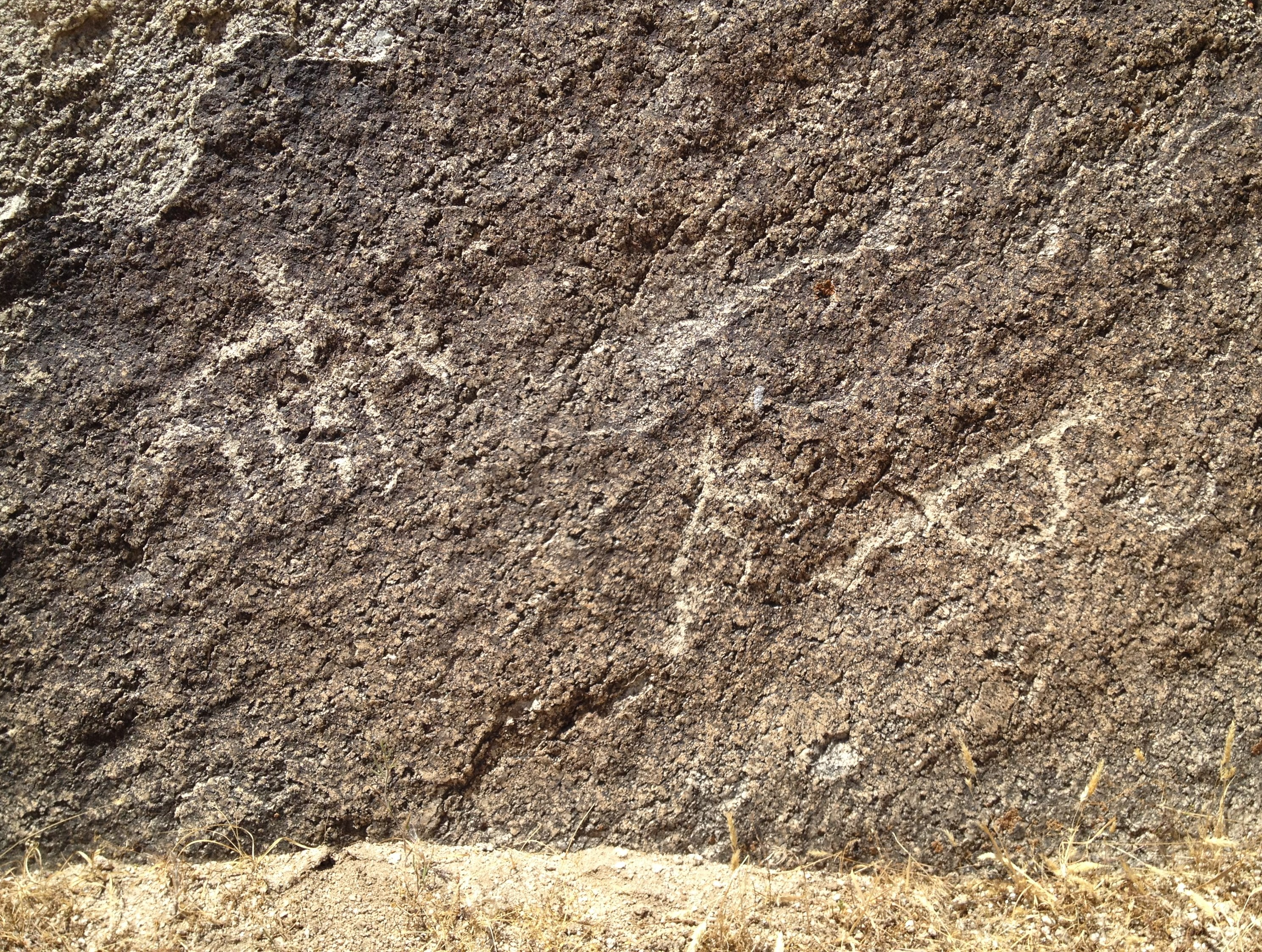 Petroglyph of a rider and matchlocks in Tamga-Tash group (Ilan-Say)